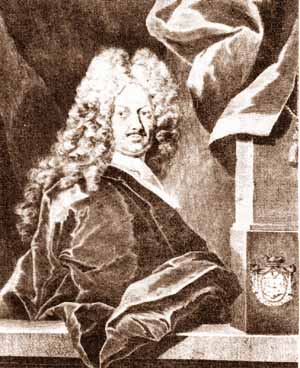 Portrait of Prince Andrey_Yakovlevich Khilkov